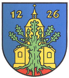 official Coat of Arms of the municipality Adenbüttel (district of Gifhorn, lower saxony, Germany)